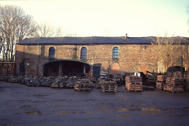 Elsecar Ironworks In the Heritage Centre complex.